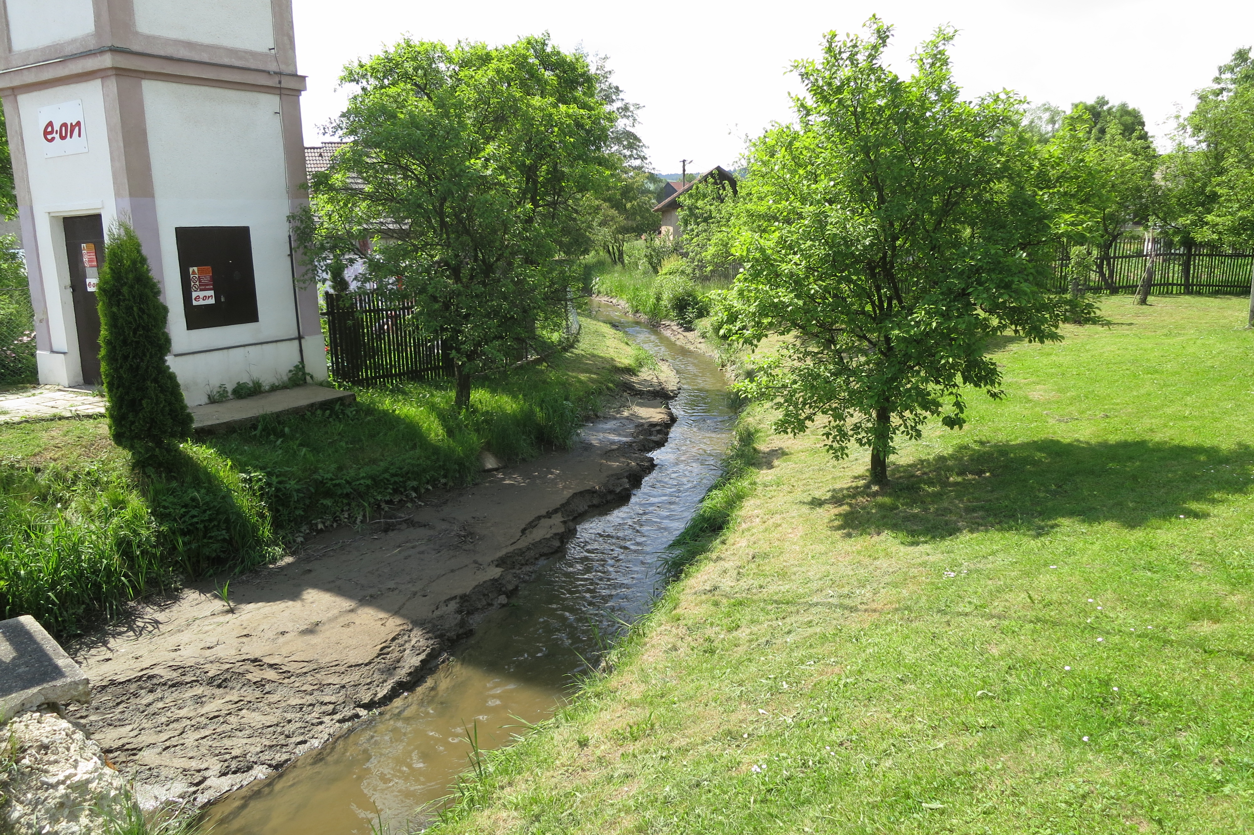 Stream Římovka in Římov, Třebíč District.